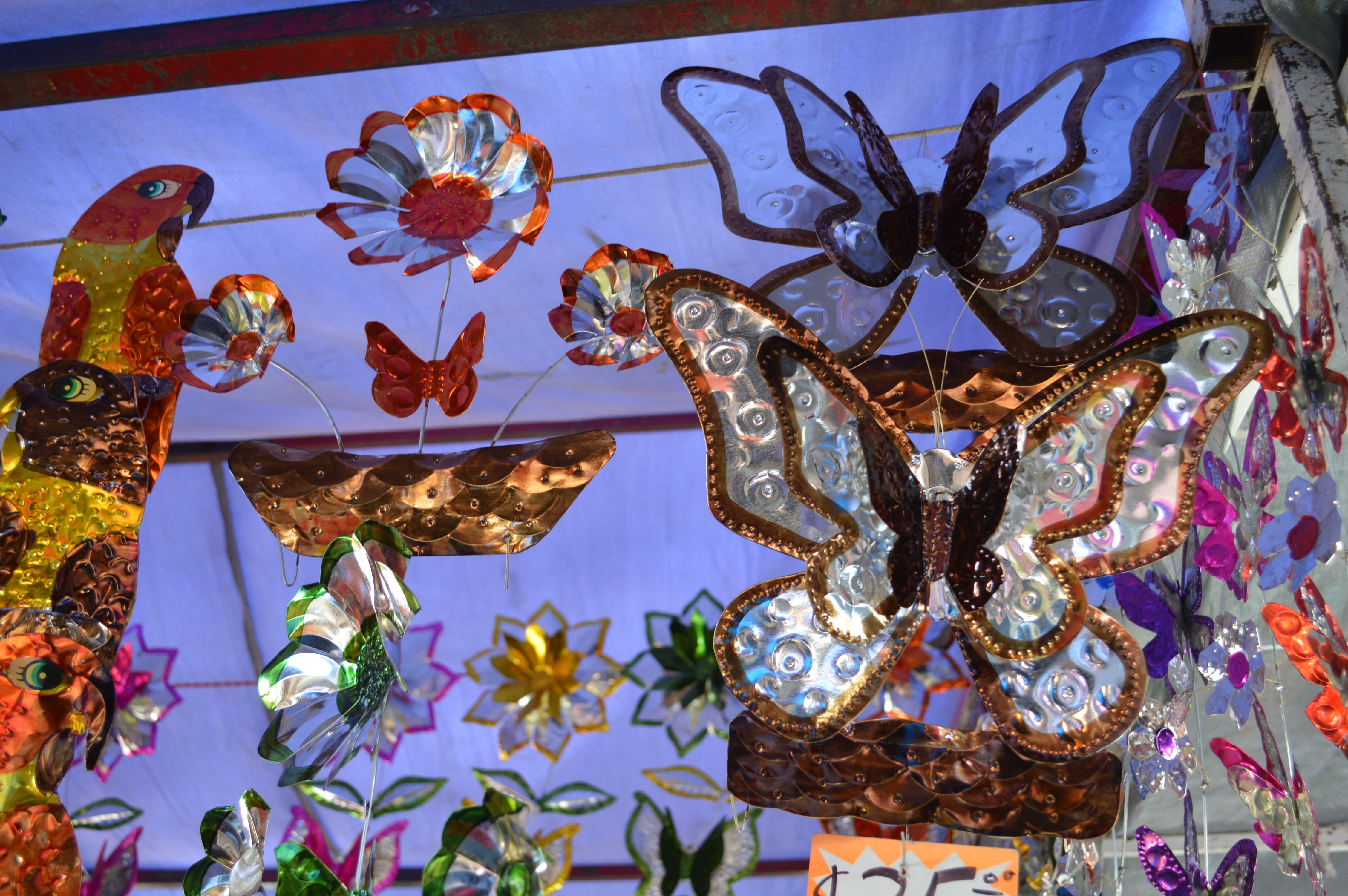 Tin decorations for sale in Tonala, Jalisco, Mexico